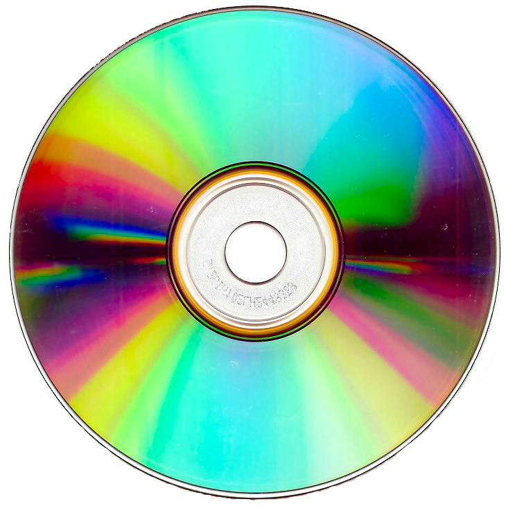 This image depicts a flat view of a CD-R with interference colours. It was scanned with an HP ScanJet 4400c, and ran through ACDSee's auto-level filter. One fallback of the image are the dust fibres. It was initially saved as .JPG with IrfanView at 90% quality, and then converted to .PNG to add transparency.